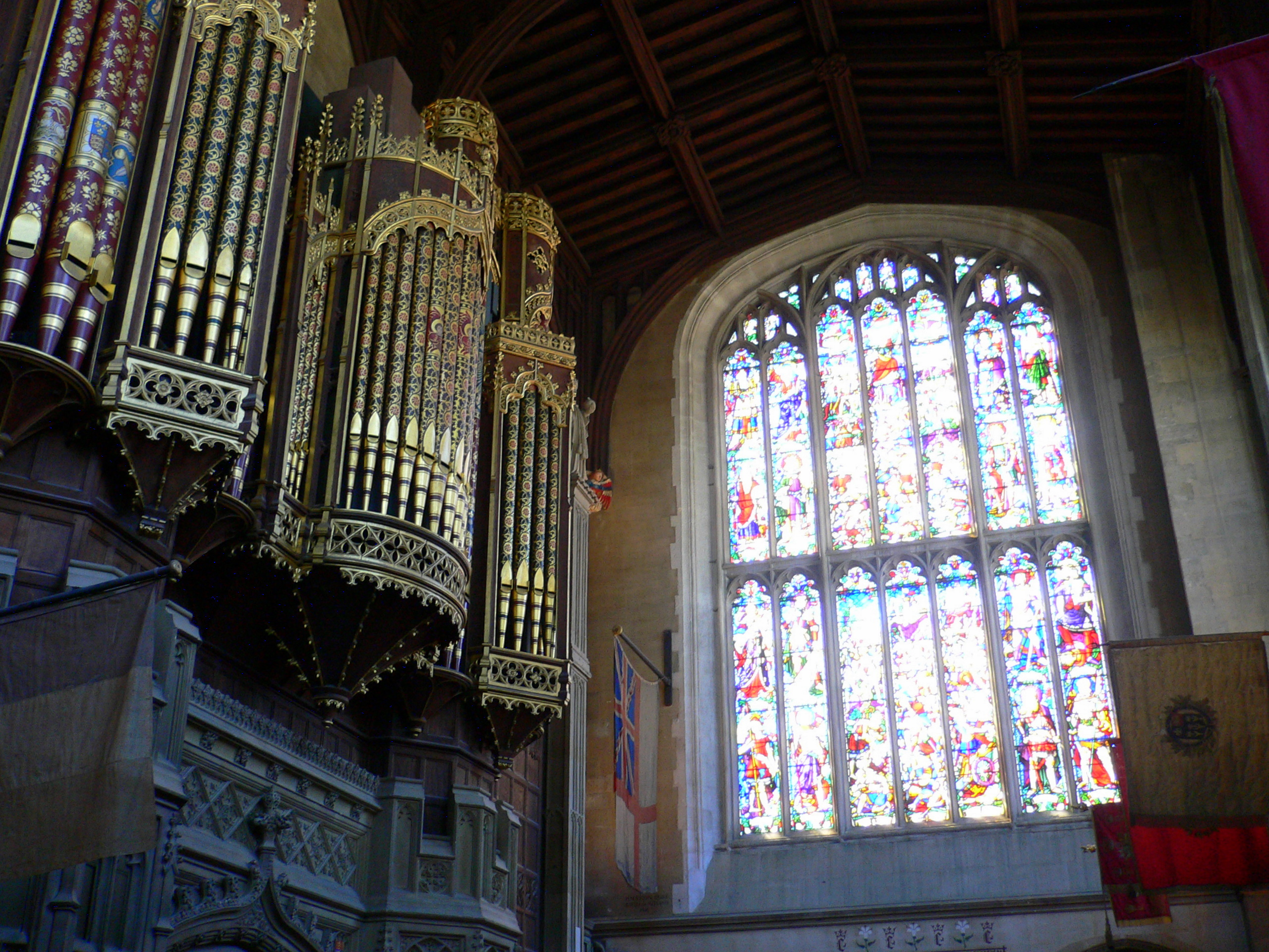 Inside Eton College Chapel, Berkshire